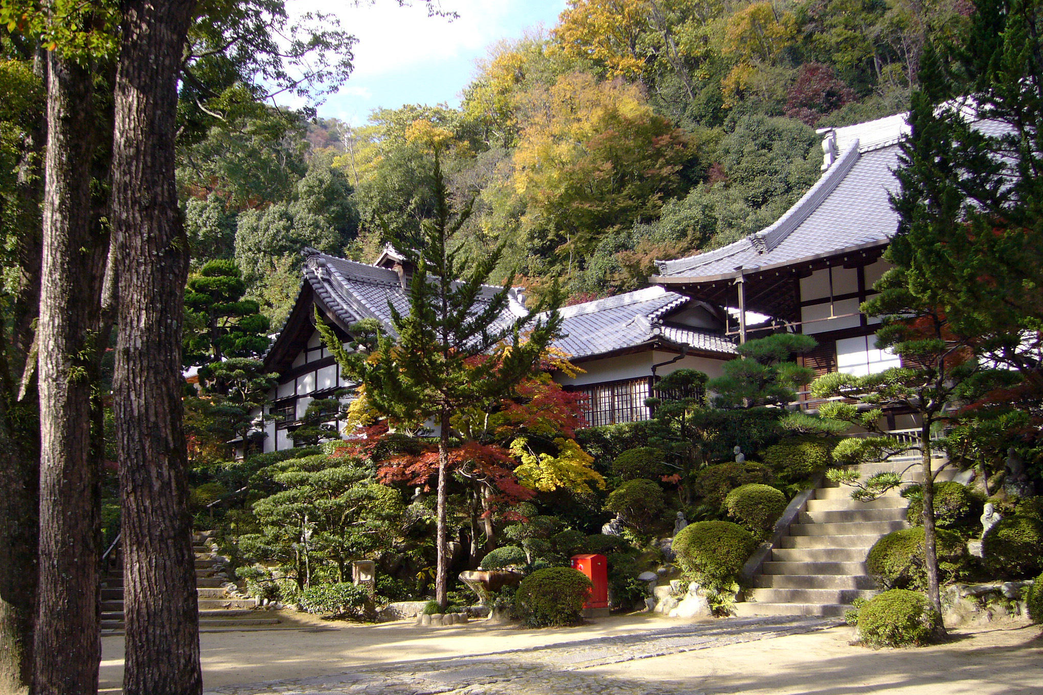 Tokko-in in Kobe, Hyogo prefecture, Japan